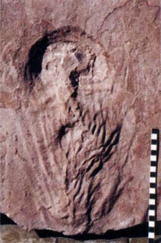 Urolite from São Bento quarry in Araraquara, São Paulo state, Brazil.